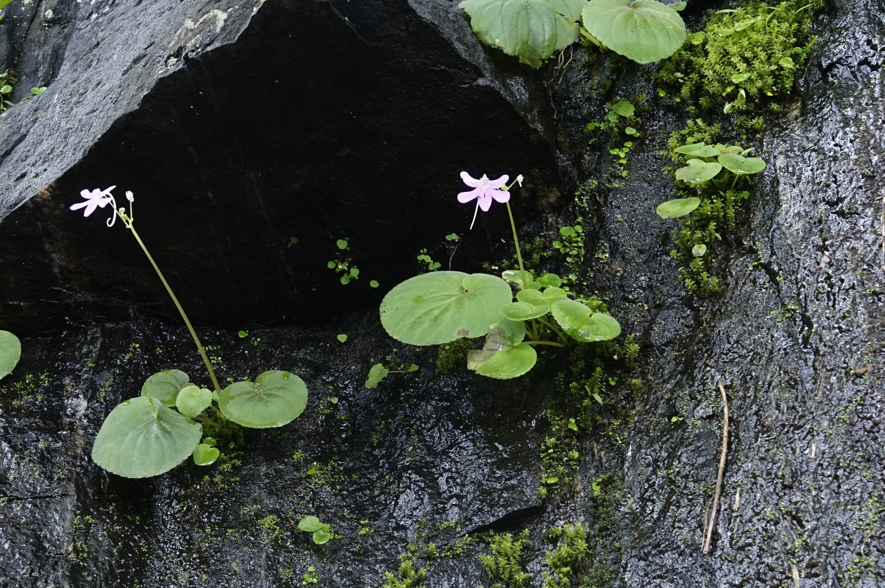 Wayanadu